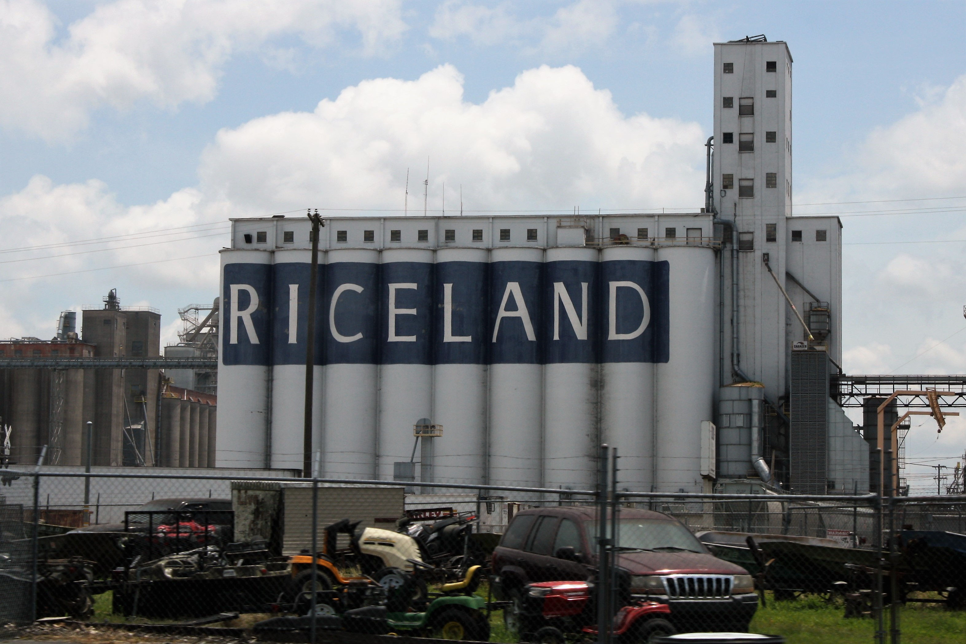 Riceland elevator in Stuttgart, Arkansas